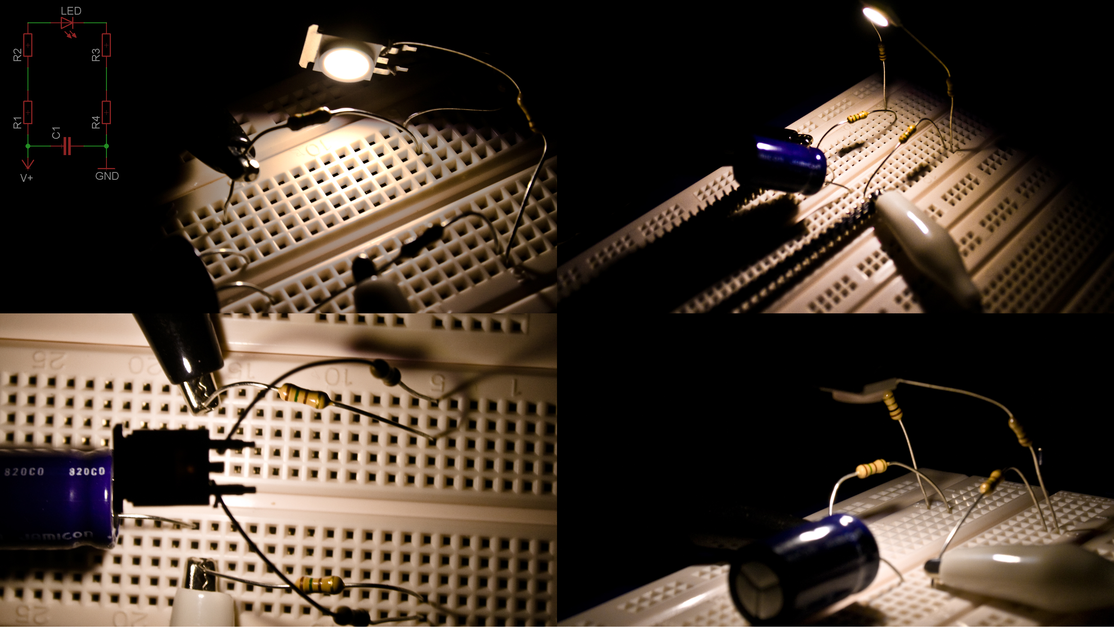 breadboard, projectboard